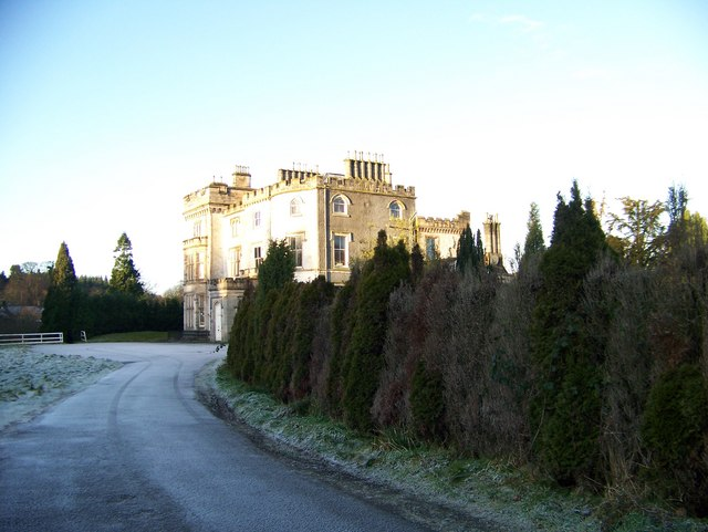 Crossbasket House, near East Kilbride The oldest part of the house is the 16th century tower. Other parts of the building were added in the 19th century. The house has served as a nursery and a missionary centre in recent years